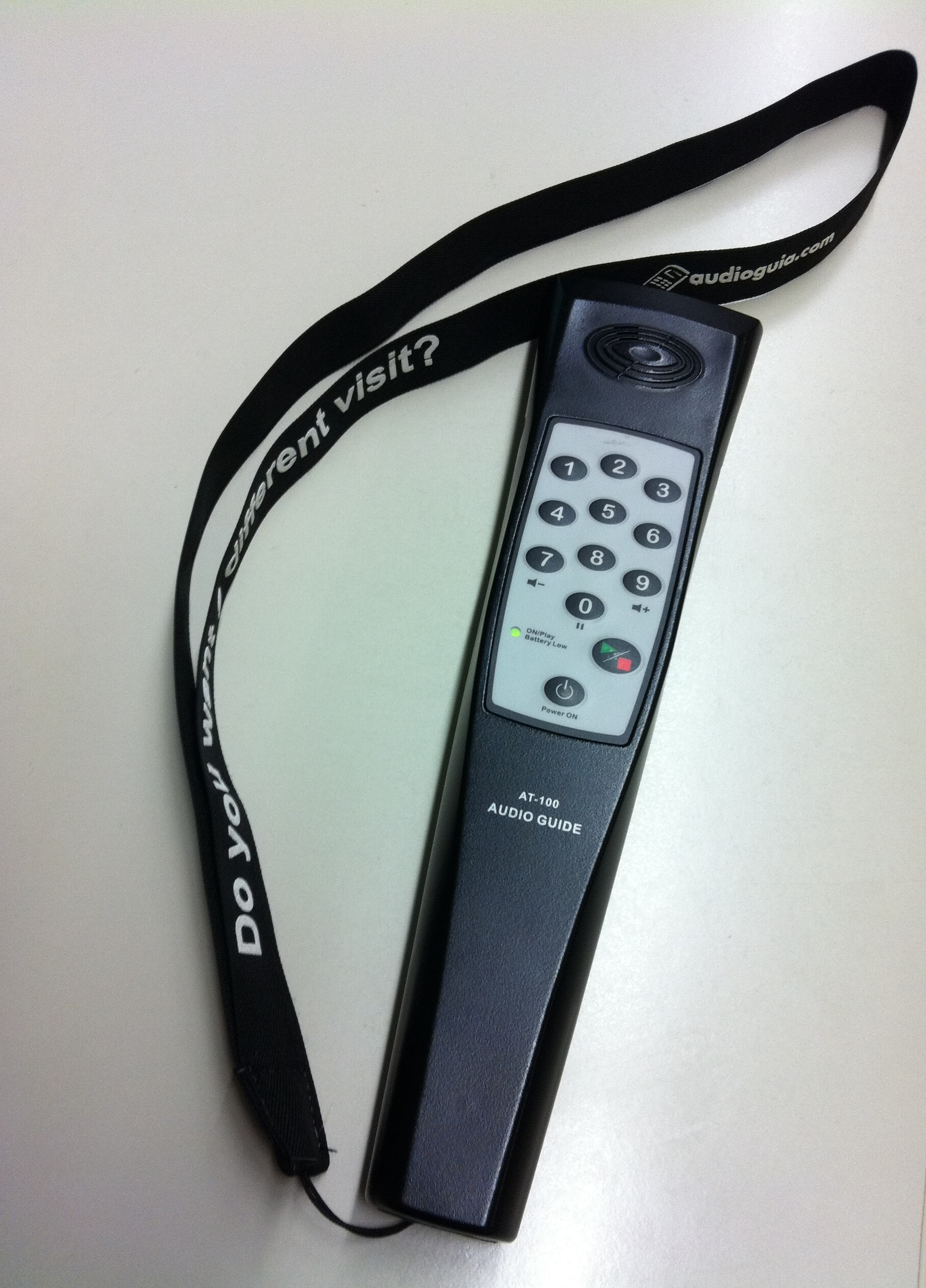 Audioguide